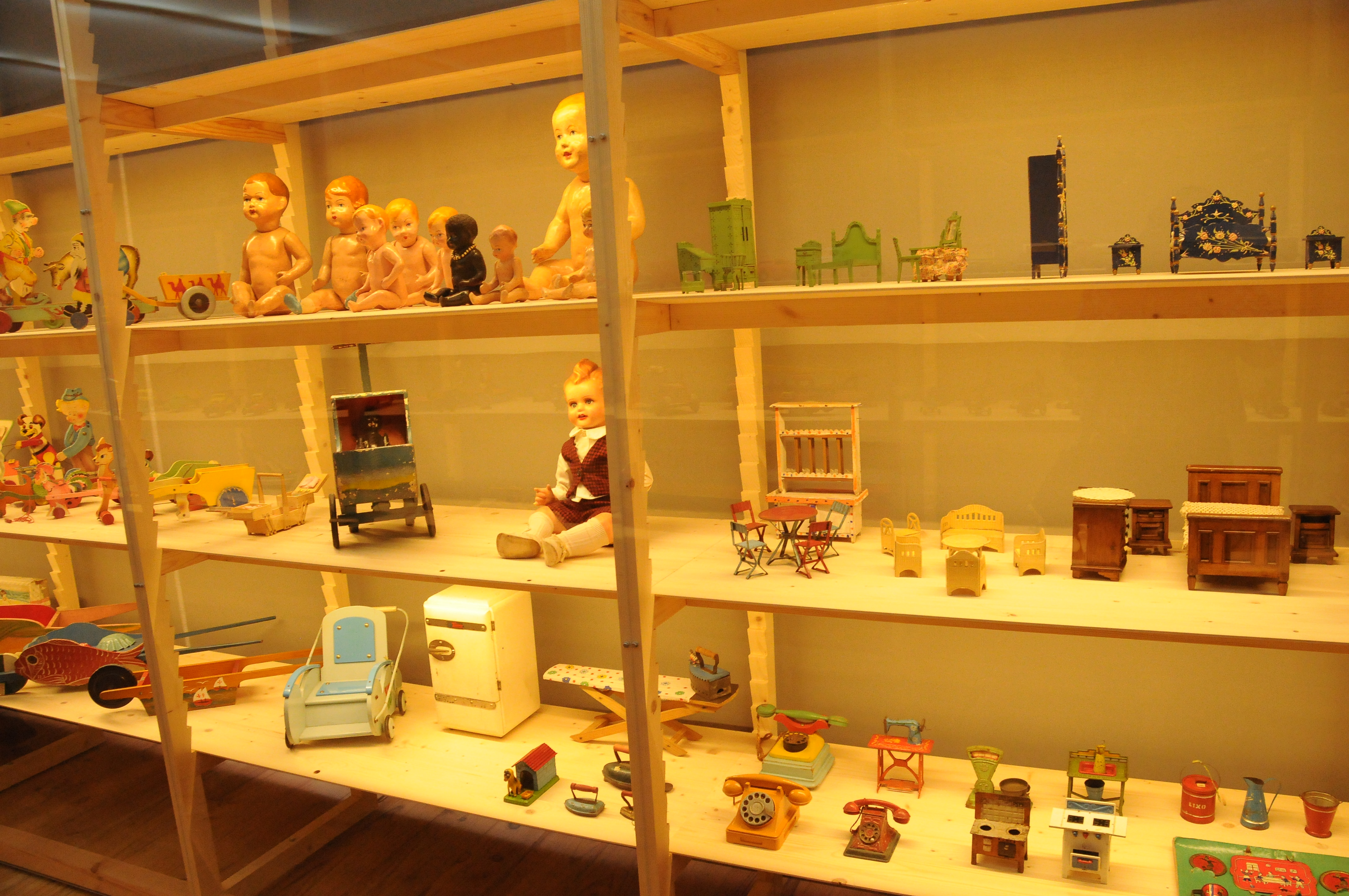 Portuguese Toy Museum, in Ponte de Lima, Portugal